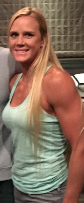 Holly Holm